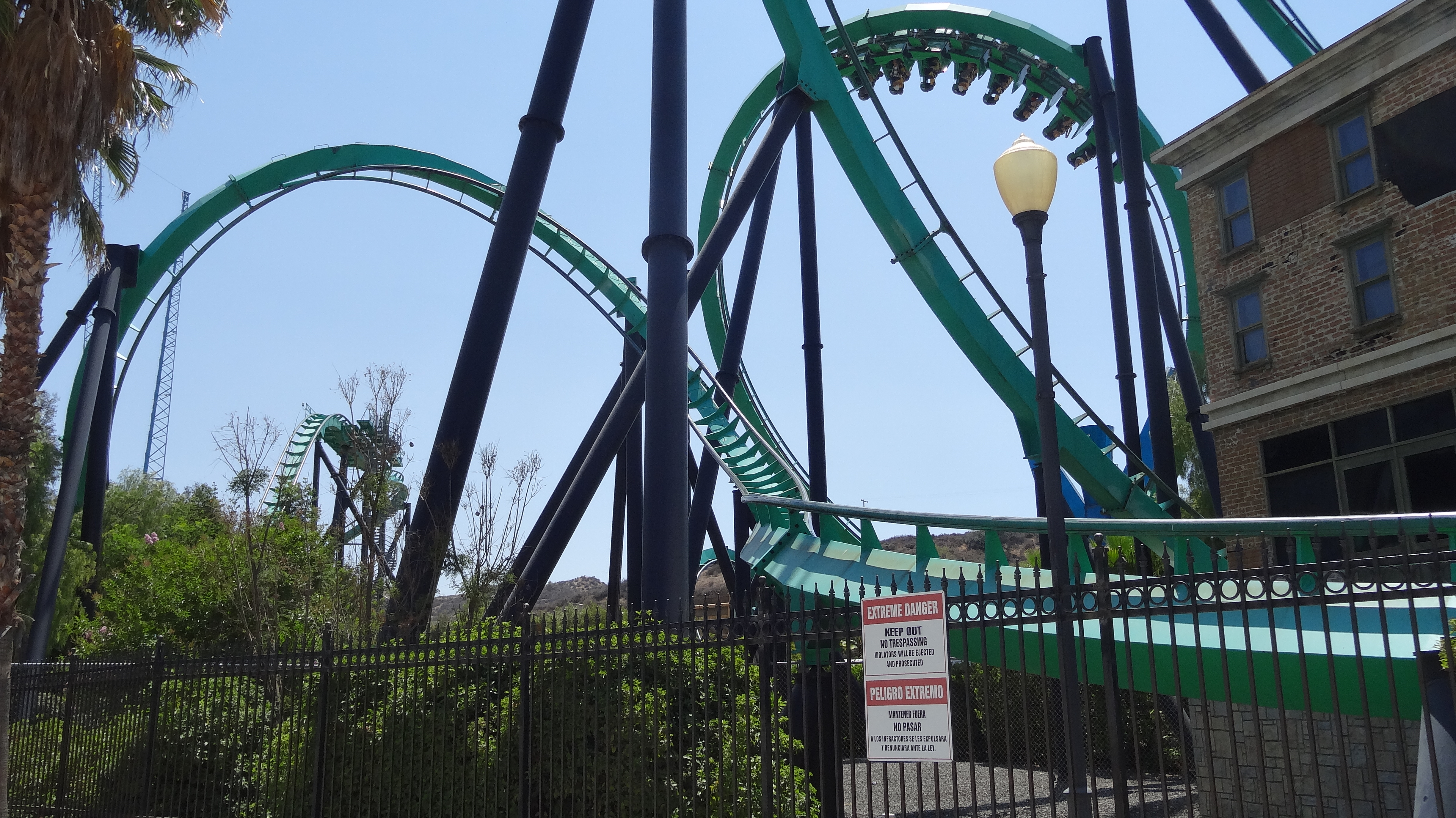 Third inverted loop of Riddler's Revenge.